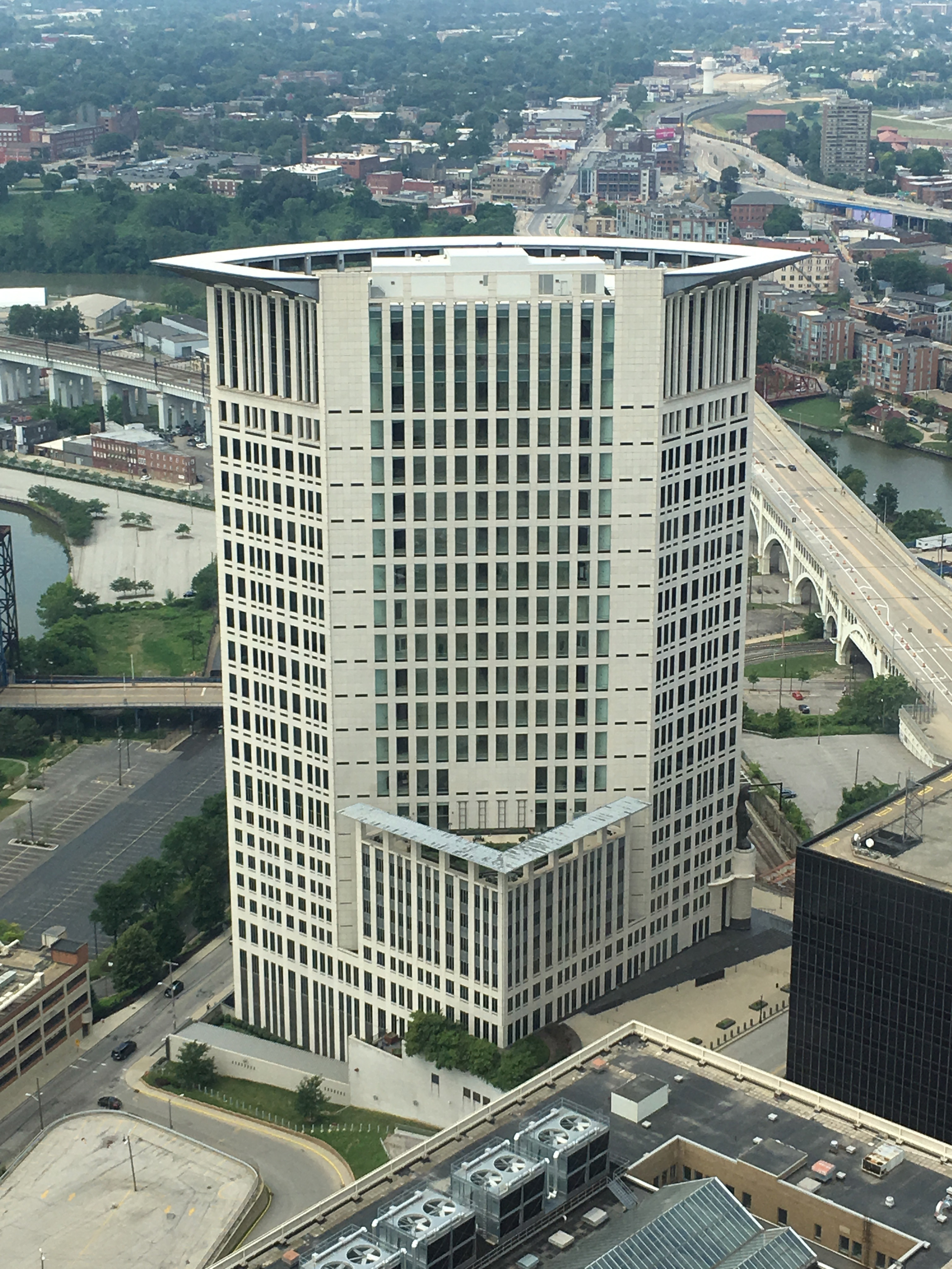 Carl B. Stokes Federal Court House Building